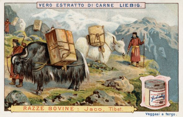 I - Advertising for Liebig Extract of Meat